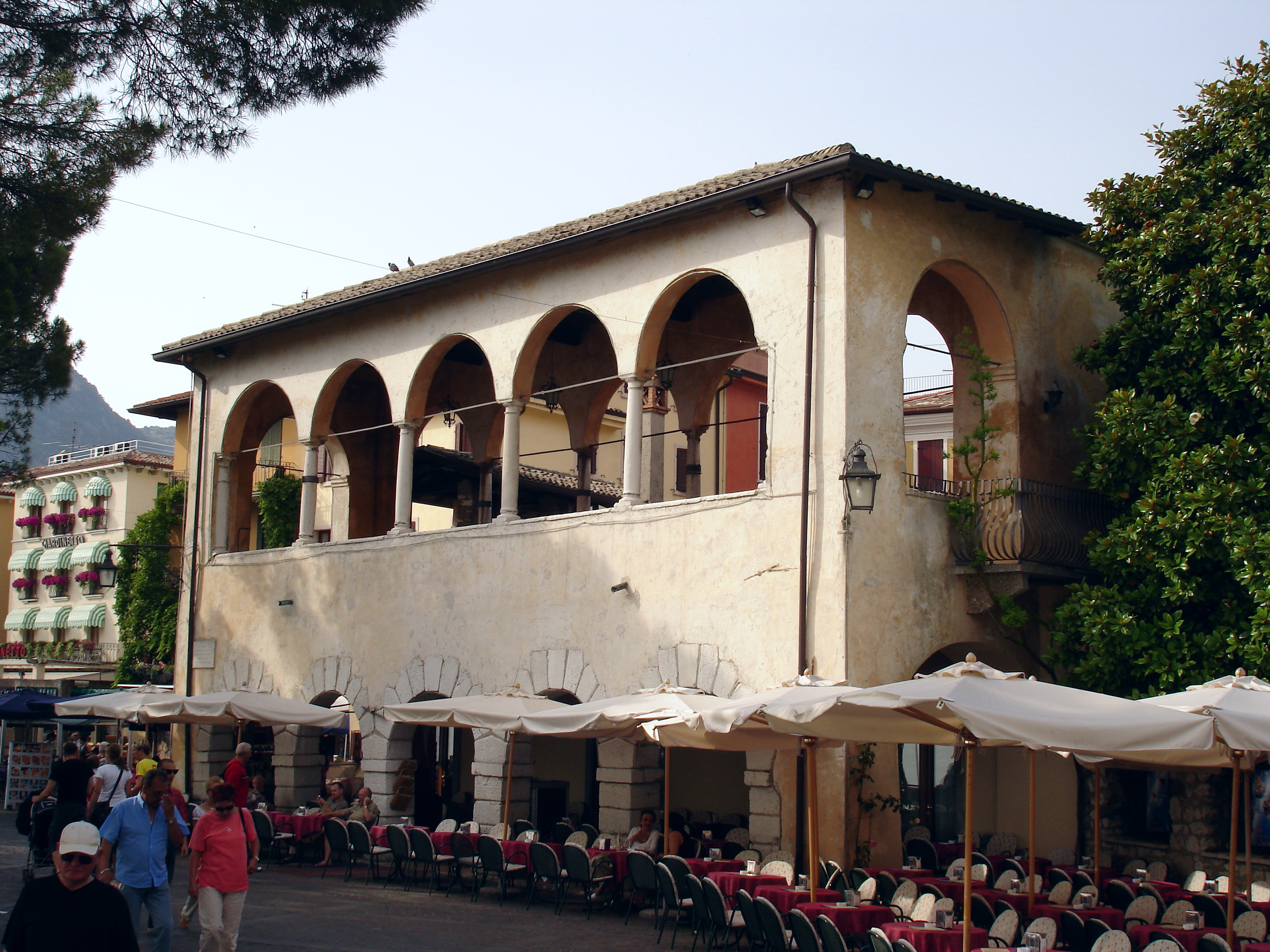 Belvedere in the town of Garda, Italy. Author: Michaël de Vos